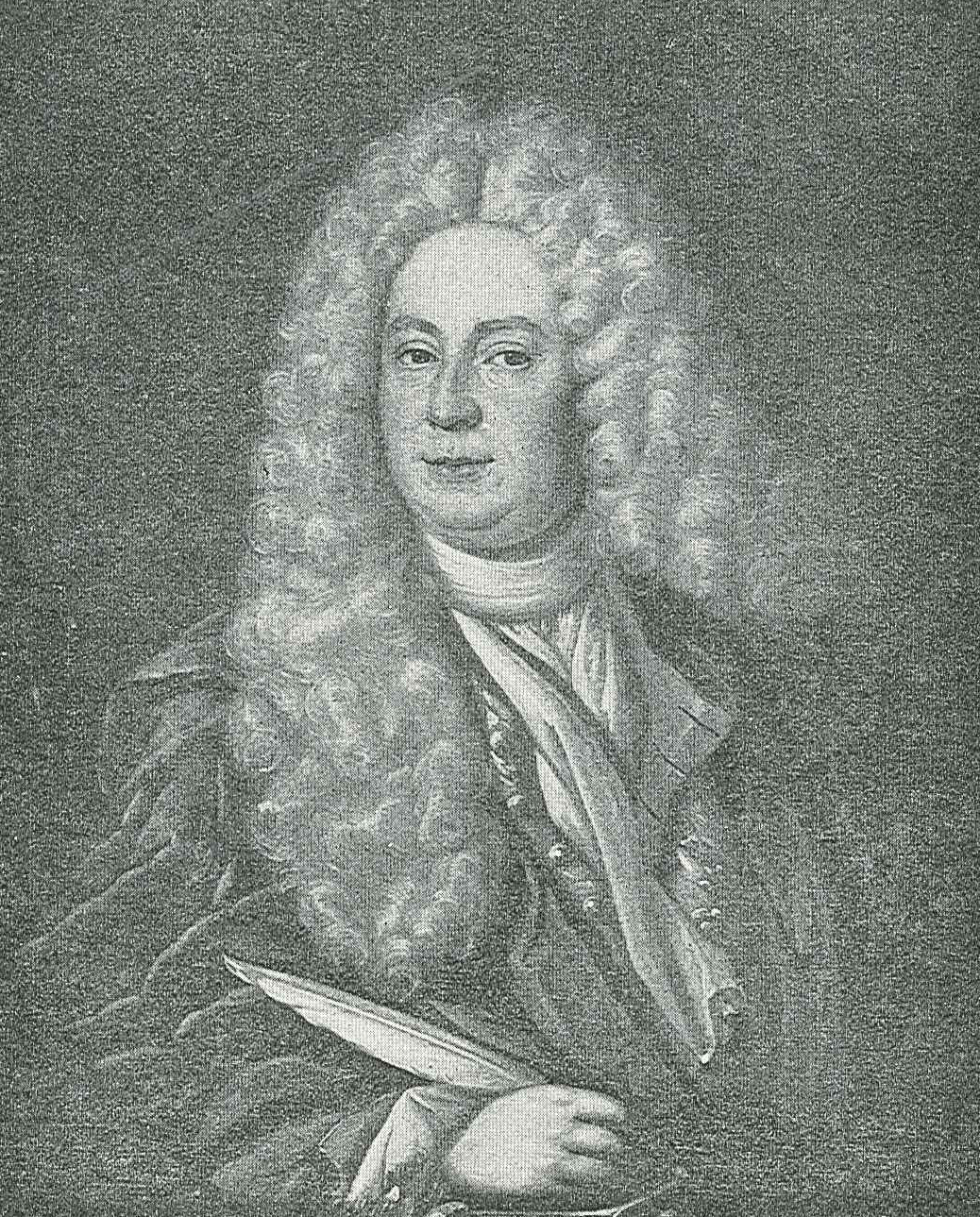 Johan Hermansson (1679-1737), Swedish professor of natural law.